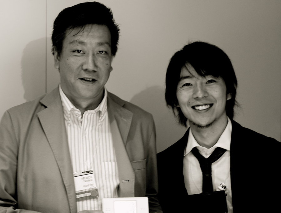 Hiromichi Tanaka and Tomoya Asano at the Electronic Entertainment Expo in Los Angeles, California in 2006.